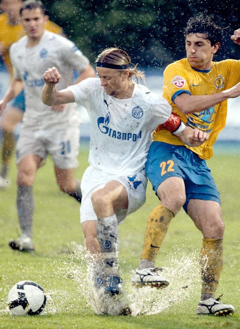 Anatoliy Tymoshchuk (44) and Levani Gvazava (22) in match between FC Luch-Energia and FC Zenit St. Petersburg